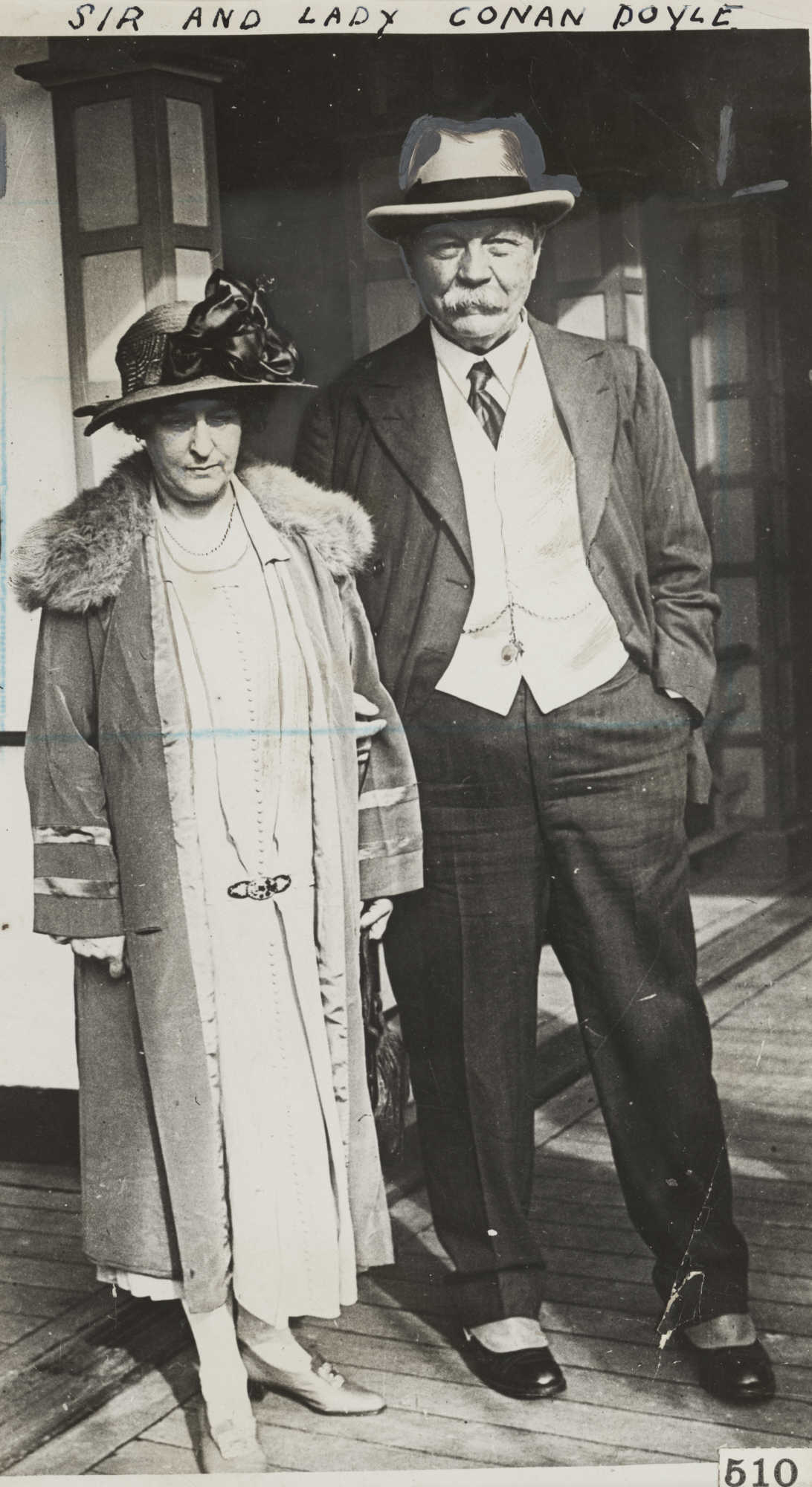 Daily Herald Archive at the National Media Museum Sir Arthur Conan Doyle (1859-1930) was a Scottish writer and physician best known for creating the fictional detective, Sherlock Holmes. First published in 1886, the stories of Holmes and his apprentice, Watson, were an instant success and continue to be popular today. His other works include science fiction stories, plays, romances, poetry, non-fiction and historical novels. This photograph has been selected from the Daily Herald Archive, a collection of over three million photographs.